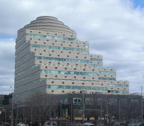 Looking northeast from 188th St overpass across Park Avenue tracks at a pyramidal building on Fordham Road used by St Barnabas Hospital and others.